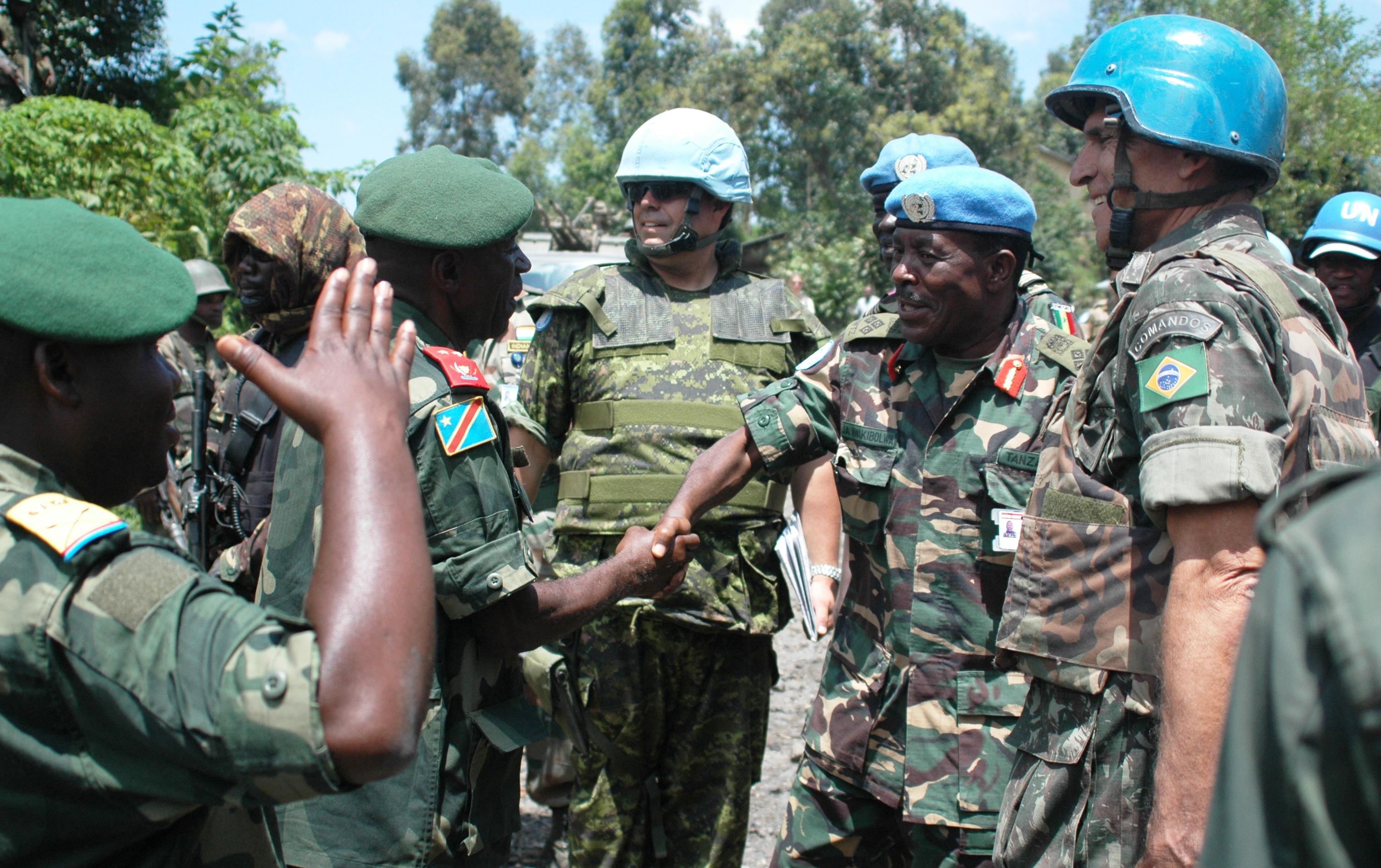 MONUSCO Force Intervention Brigade (FIB) Commander congratulates the Democratic Republic of Congo’s Armed forces (FARDC) and the Congolese National Police (PNC) for the reinstallation of the State of authority in the territory of Rutshuru. Photo MONUSCO/Clara Padovan- (Copyrights free). The Congolese officer is believed to be Maj. Gen. Lucien Bahuma; the UN one James Aloizi Mwakibolwa, commander of the FIB.